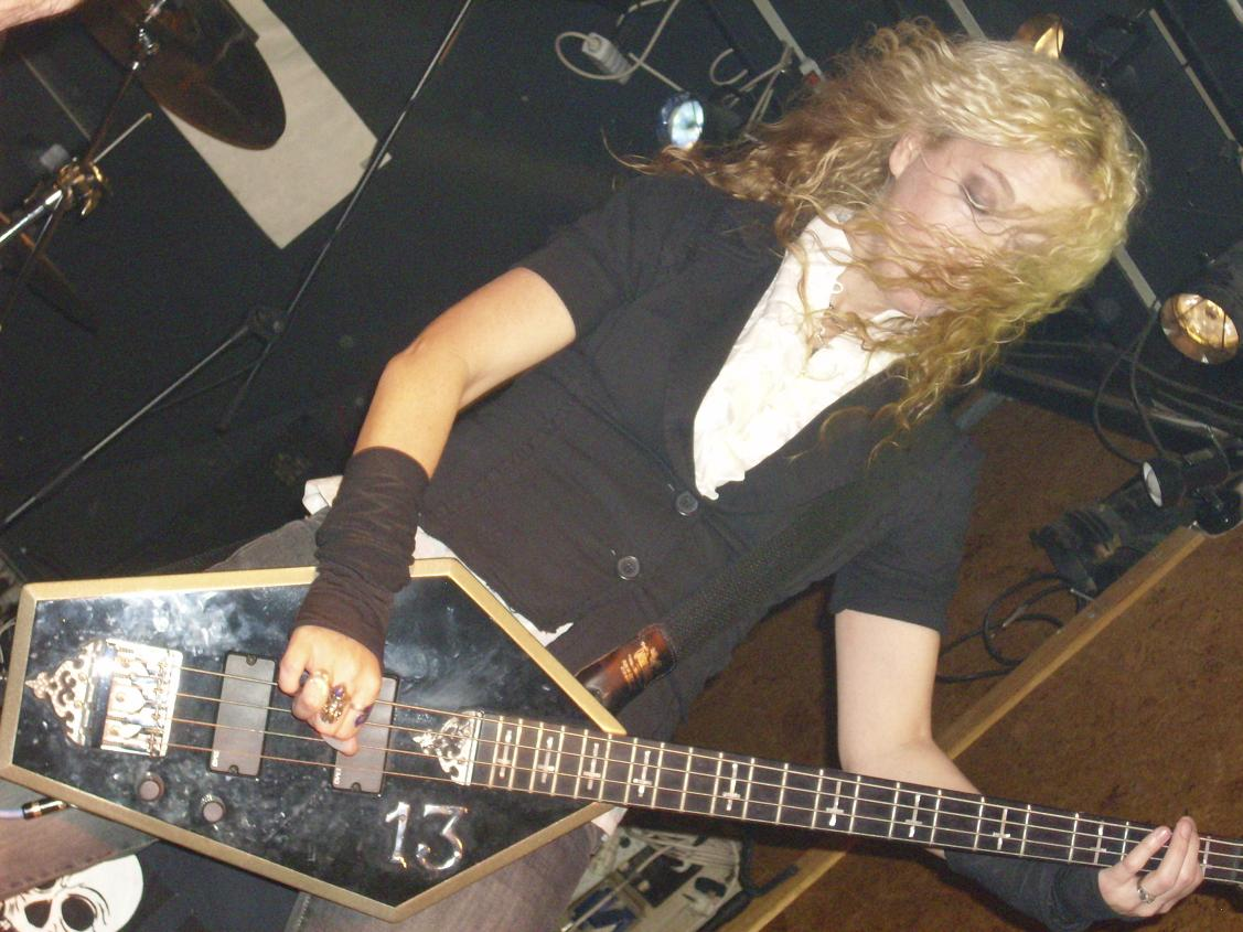 Rock City Morgue bassist Sean Yseult.